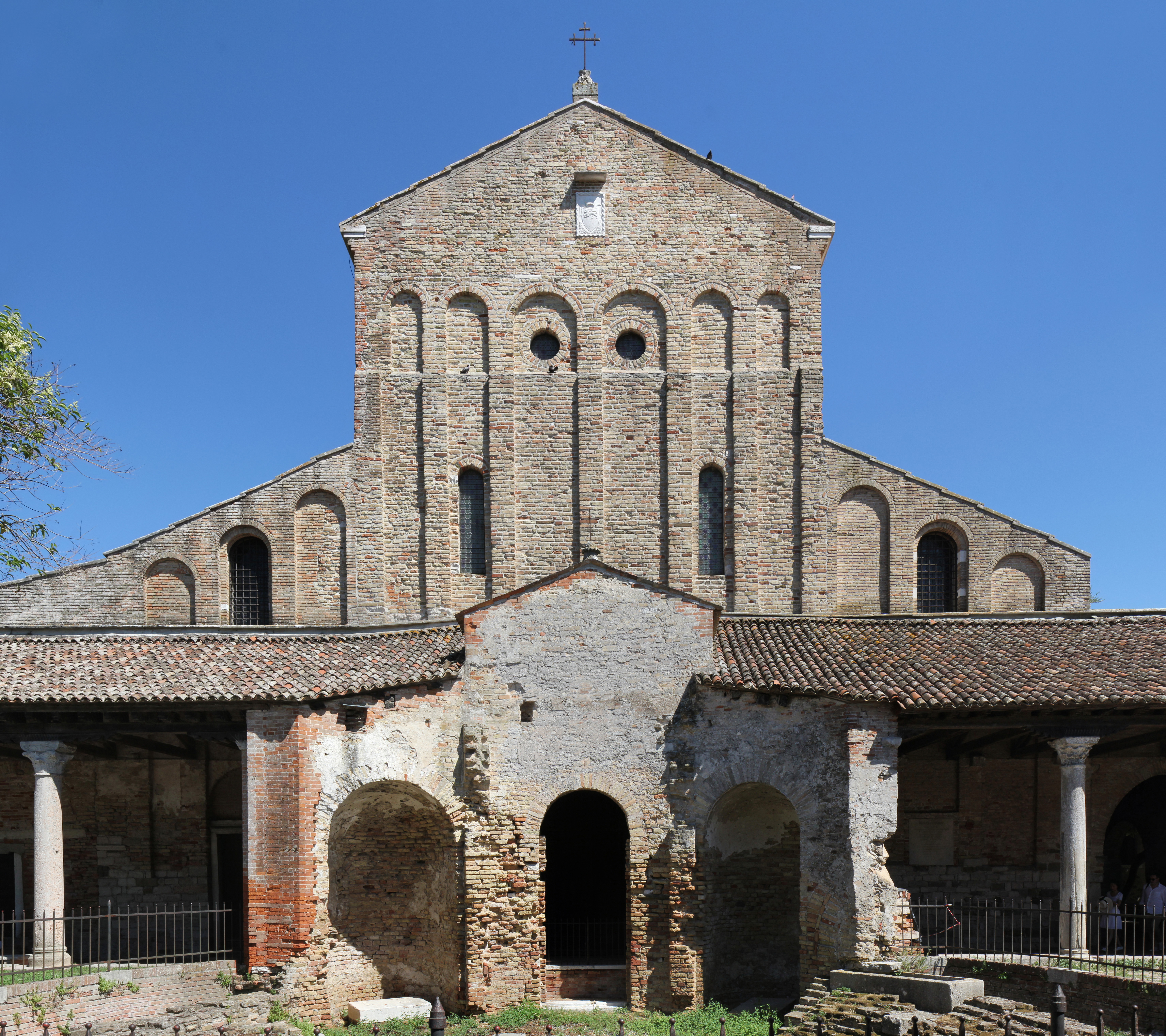 North west facade of Santa Maria Assunta, Torcello, Italy.